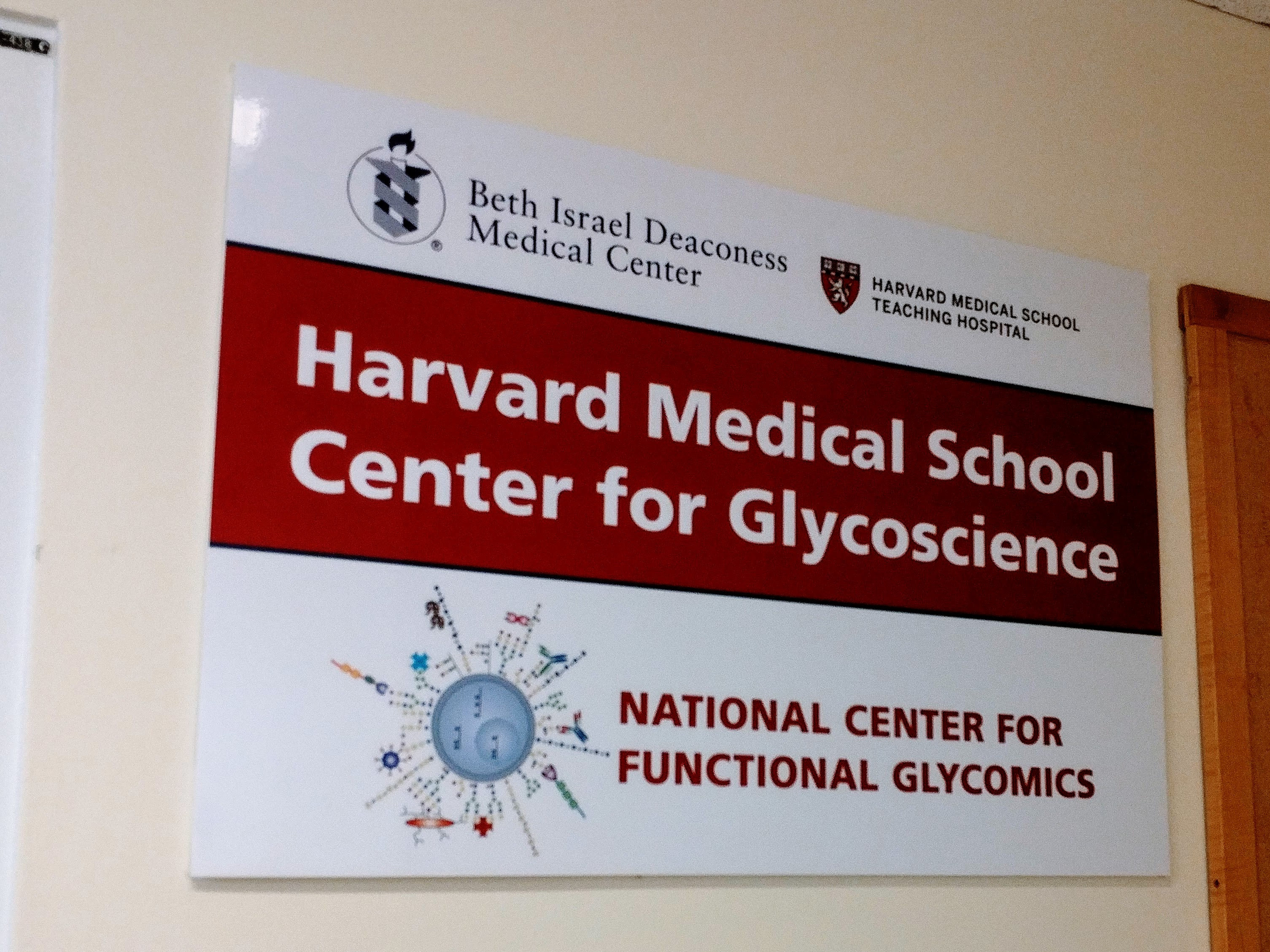 National Center for Functional Glycomics is located at the Beth Israel Deaconess Medical Center and is part of the Harvard Medical School Center for Glycoscience.